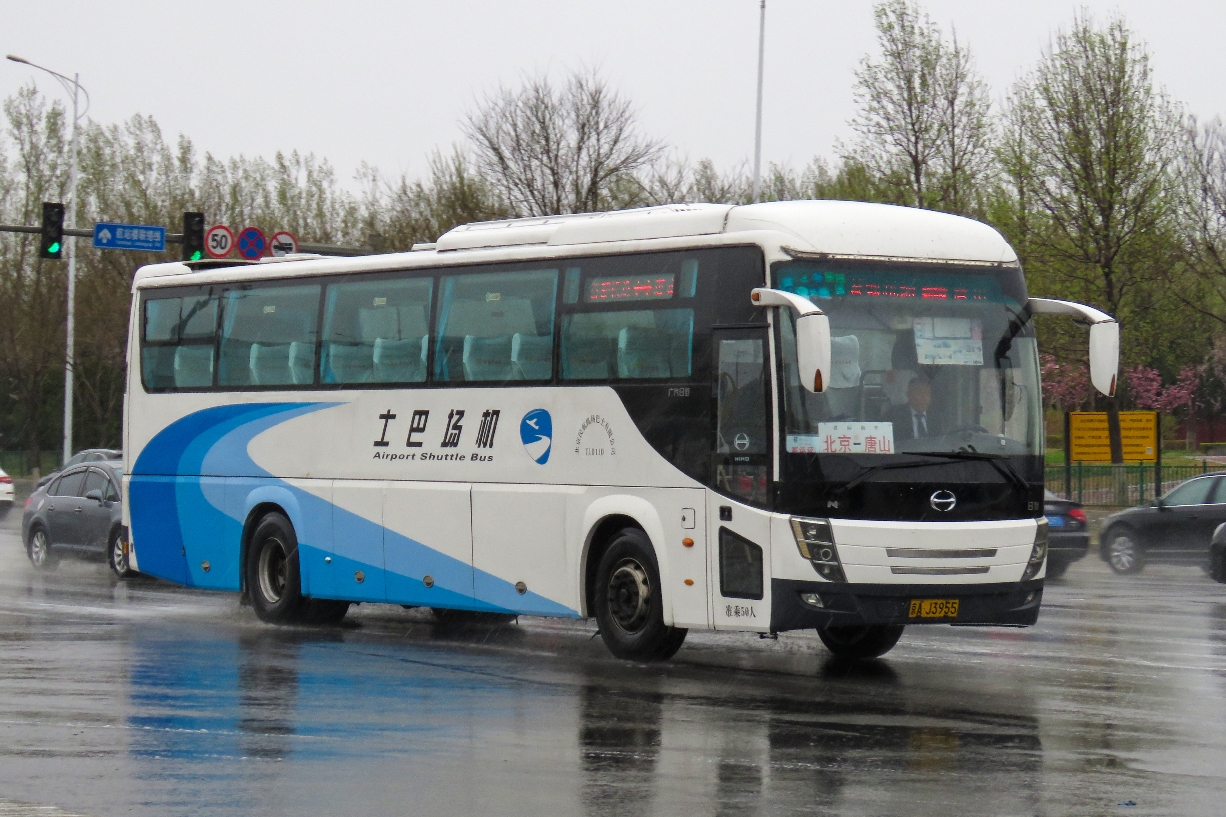 The HINO is a rare species in the airport bus fleet of ZBAA. This one was seen on a Tangshan-Beijing route.